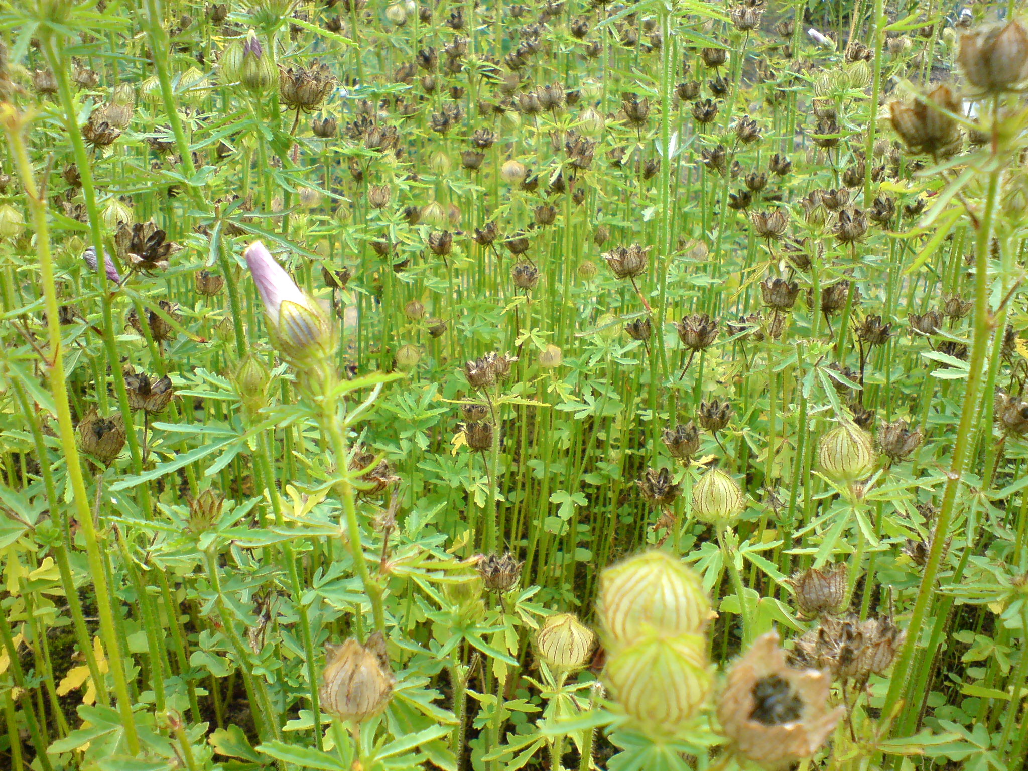 Hibiscus cannabinus (Deccan hemp, Java jute, Kenaf) - Botanical Garden Bremen